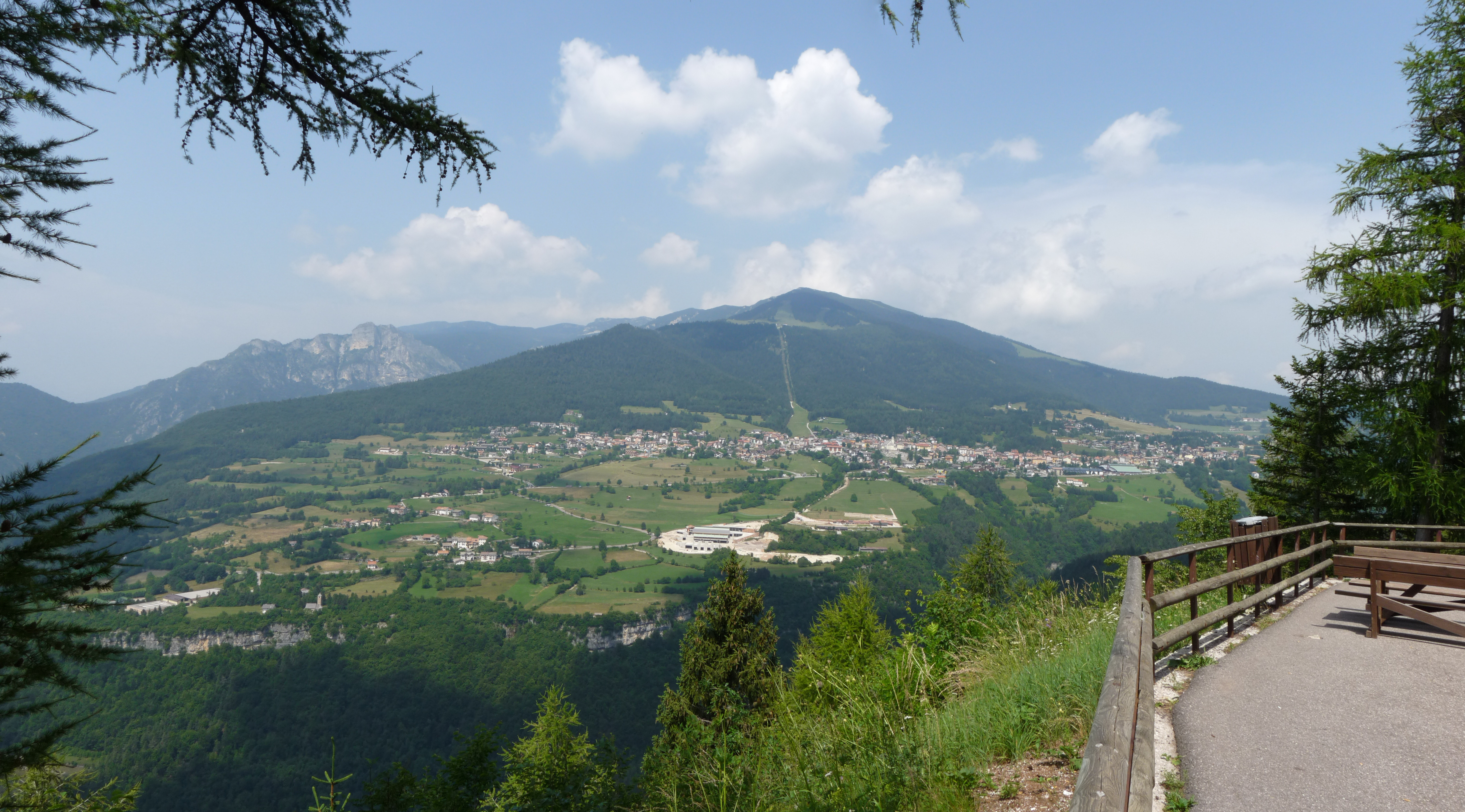 Folgaria (Italy): panorama of Folgaria near the village of Serrada.